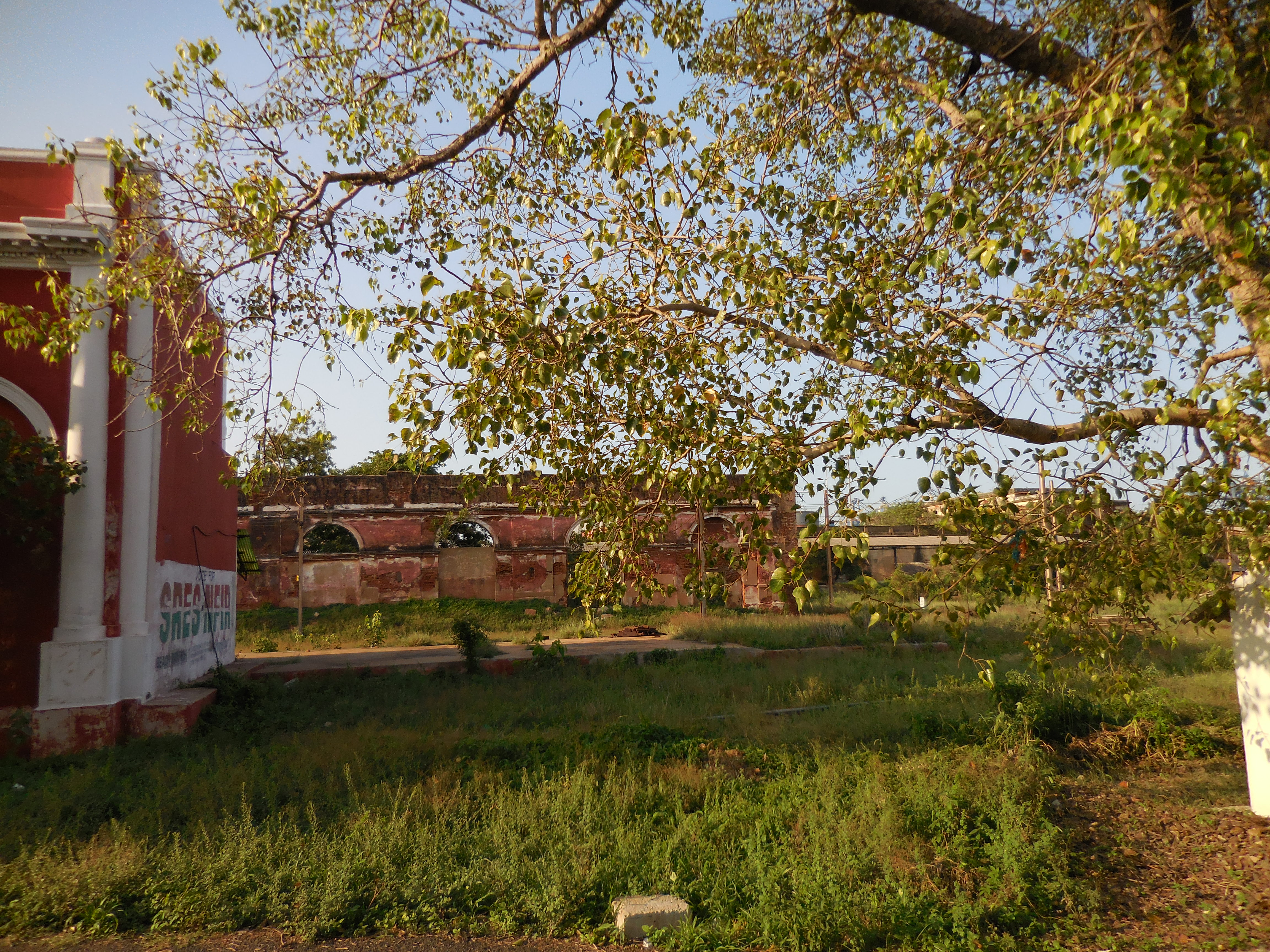 Dilapidated structures at Royapuram Railway Station, Chennai, taken on 6 July 2014 at 5:06 pm